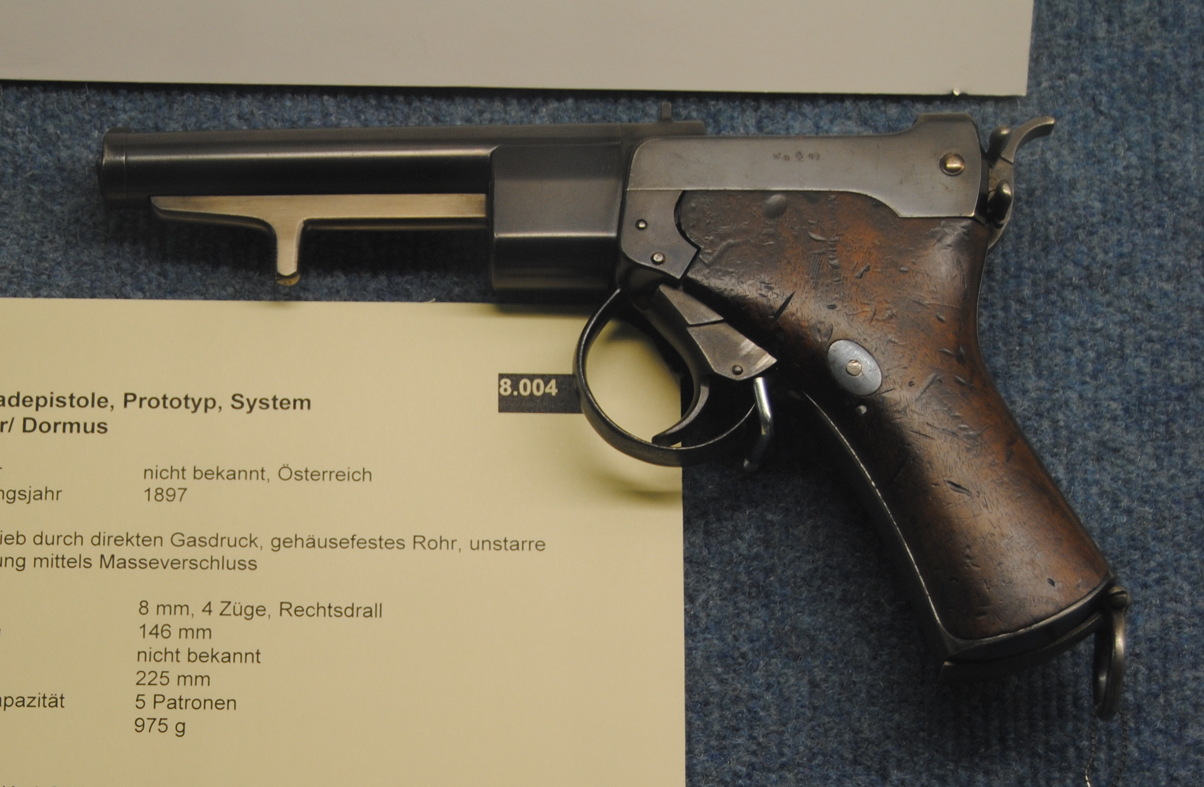 Salvator-Dormus self-loading pistol, prototype manufactured in 1897, at display at Wehrtechnische Studiensammlung Koblenz.